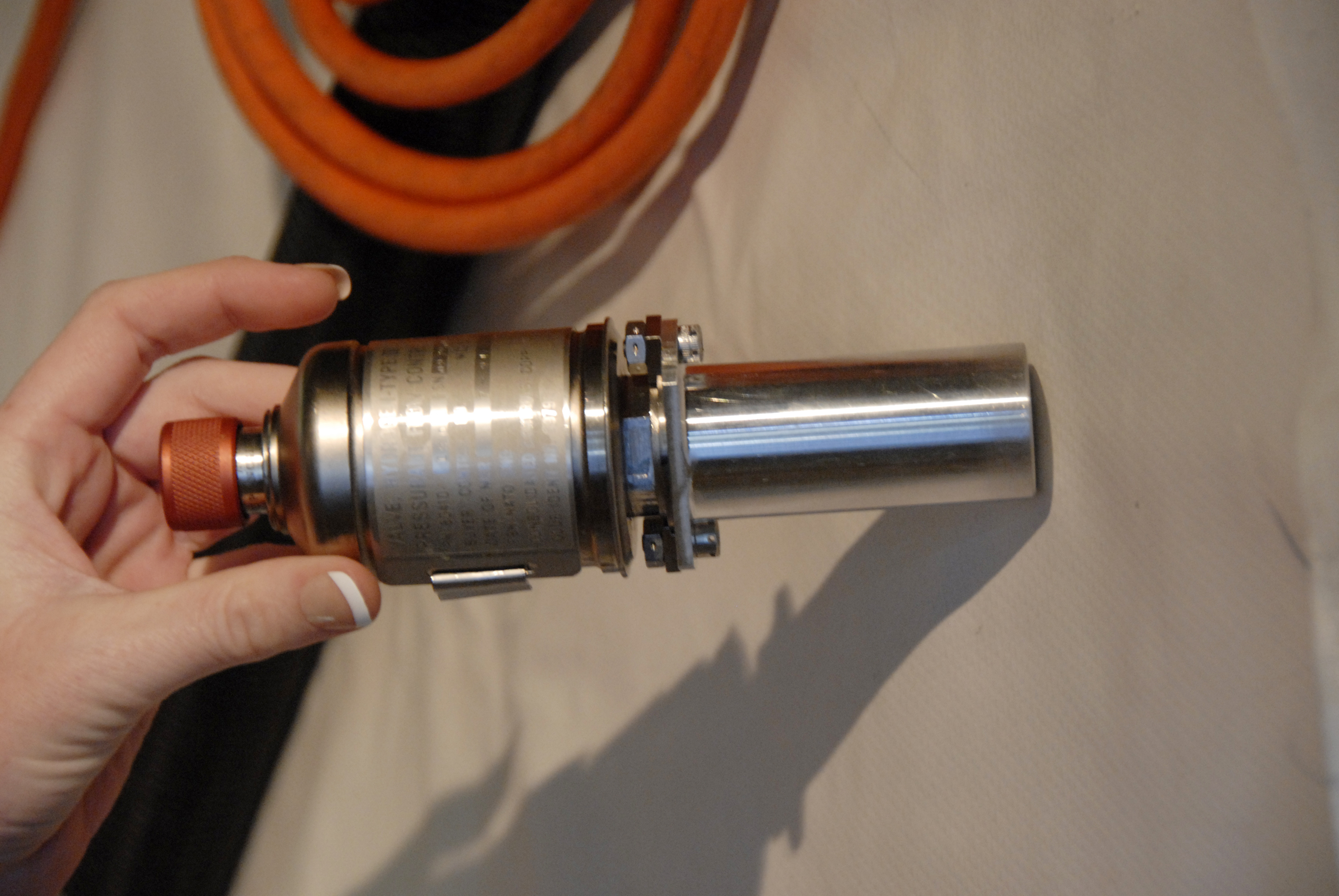 CAPE CANAVERAL, Fla. – On Launch Pad 39A at NASA's Kennedy Space Center in Florida, MPS engineer Krista Hayes holds one of space shuttle Discovery's gaseous hydrogen flow control valves after its removal. Two of the three valves being removed will undergo detailed inspection. Part of the main propulsion system, the valves channel gaseous hydrogen from the main engines to the external tank. NASA and contractor teams have been working to identify what caused damage to a flow control valve on shuttle Endeavour during its November 2008 flight. Approximately 4,000 images of each valve removed will be reviewed for evidence of cracks. Valves that have flown fewer times will be installed in Discovery. NASA's Space Shuttle Program has established a plan that could support shuttle Discovery's launch to the International Space Station, tentatively targeted for March 12. An exact target launch date will be determined as work on the valves progresses.